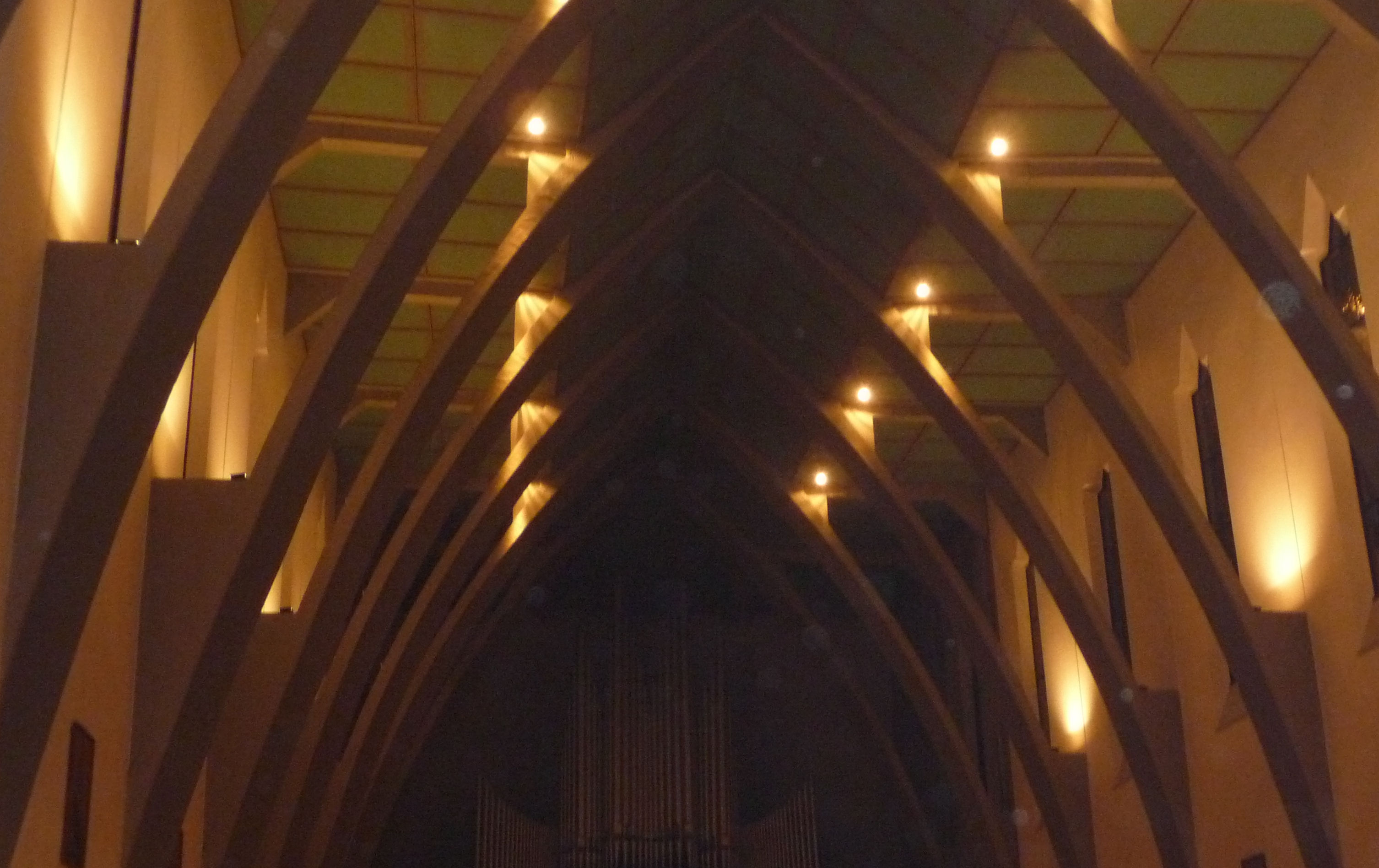 St. Mary Church in Ludwigshafen, Germany